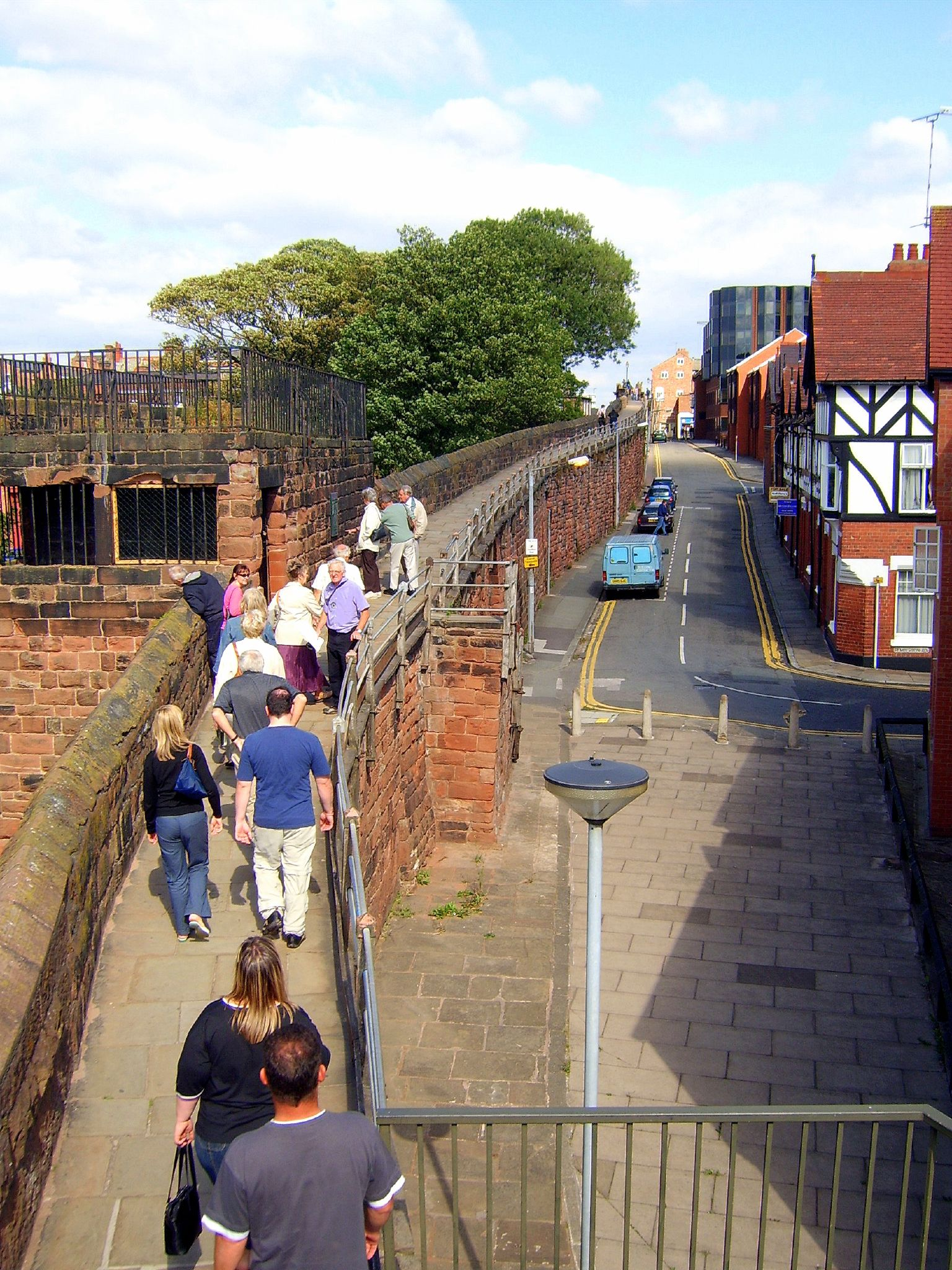 The view from the St. Martin's Gate in ChesterChester 2006: Chester Wall